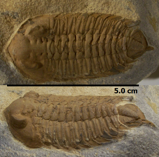 Eodalmanitina destombesi HENRY, 1966. Specimen from Valongo (Portugal)